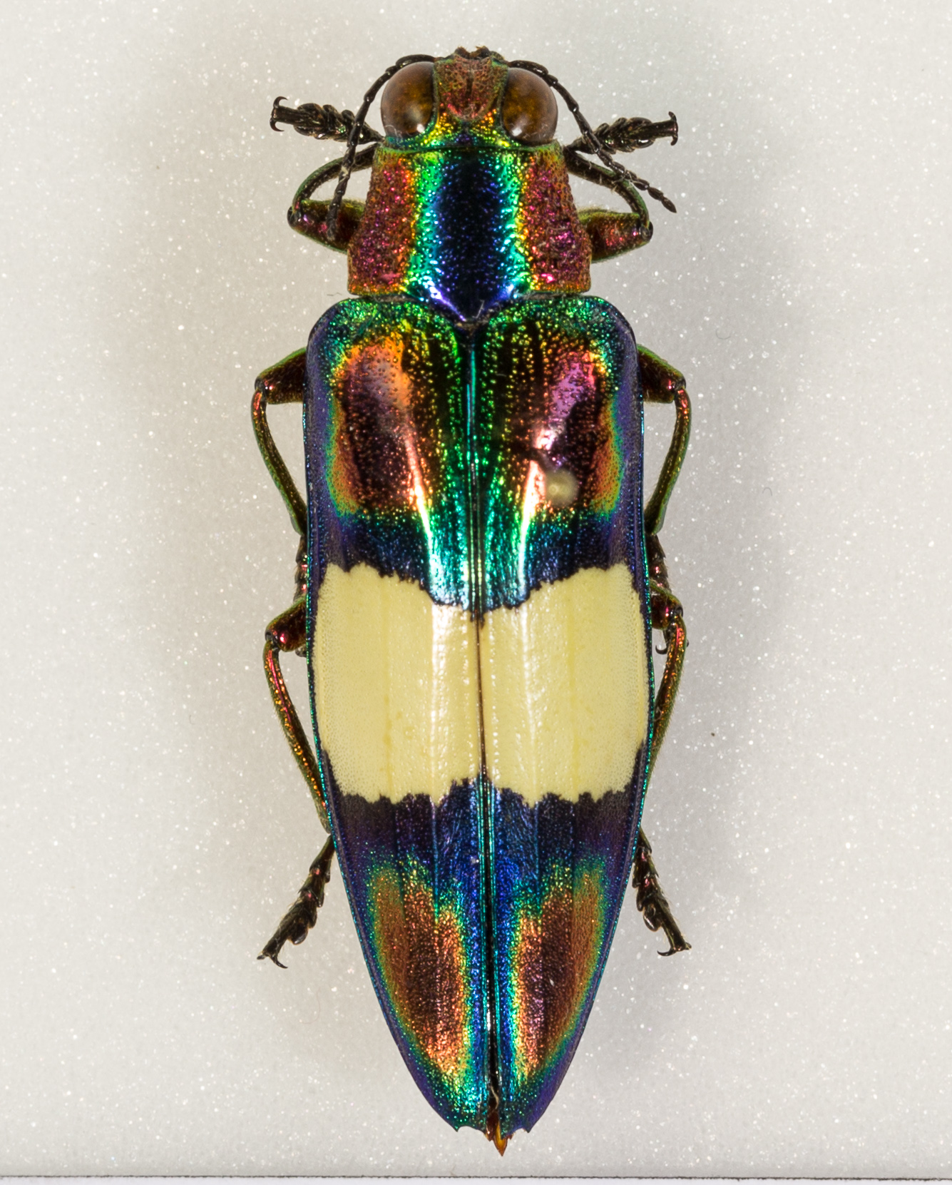 Chrysochroa ocellata from collections of zoology of University of Rennes 1.